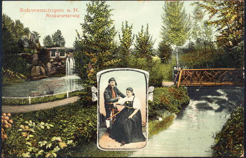 Postcard showing the Source of the river Neckar in Schwenningen